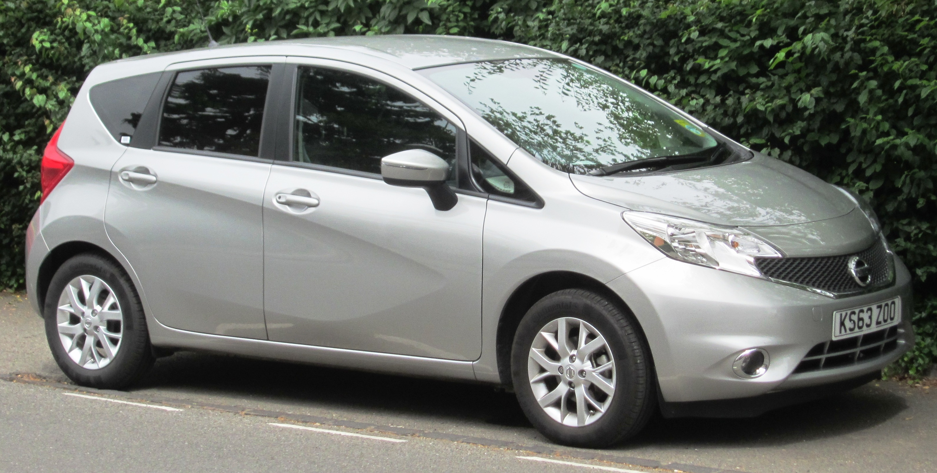 Nissan Note E12 (2014) License plate has been changed for anonymisation purposes. Year code remains correct, however.